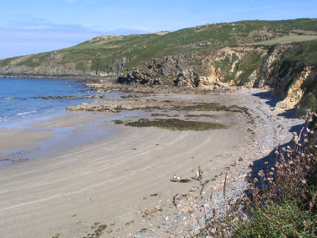 Church Bay. This image looks north across Church Bay from SH 30108 89247. The tide is out on the shot revealing the sandy beach. The coastal cliffs are typical of this stretch of coastline.